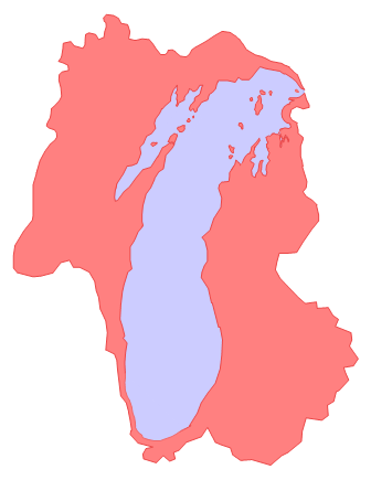 Map of the Lake Michigan watershed.